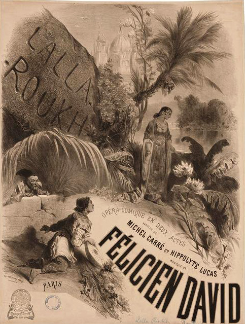 Poster for the premiere of Félicien-César David's opera Lalla-Roukh (Opéra-Comique, Paris, May 1862)